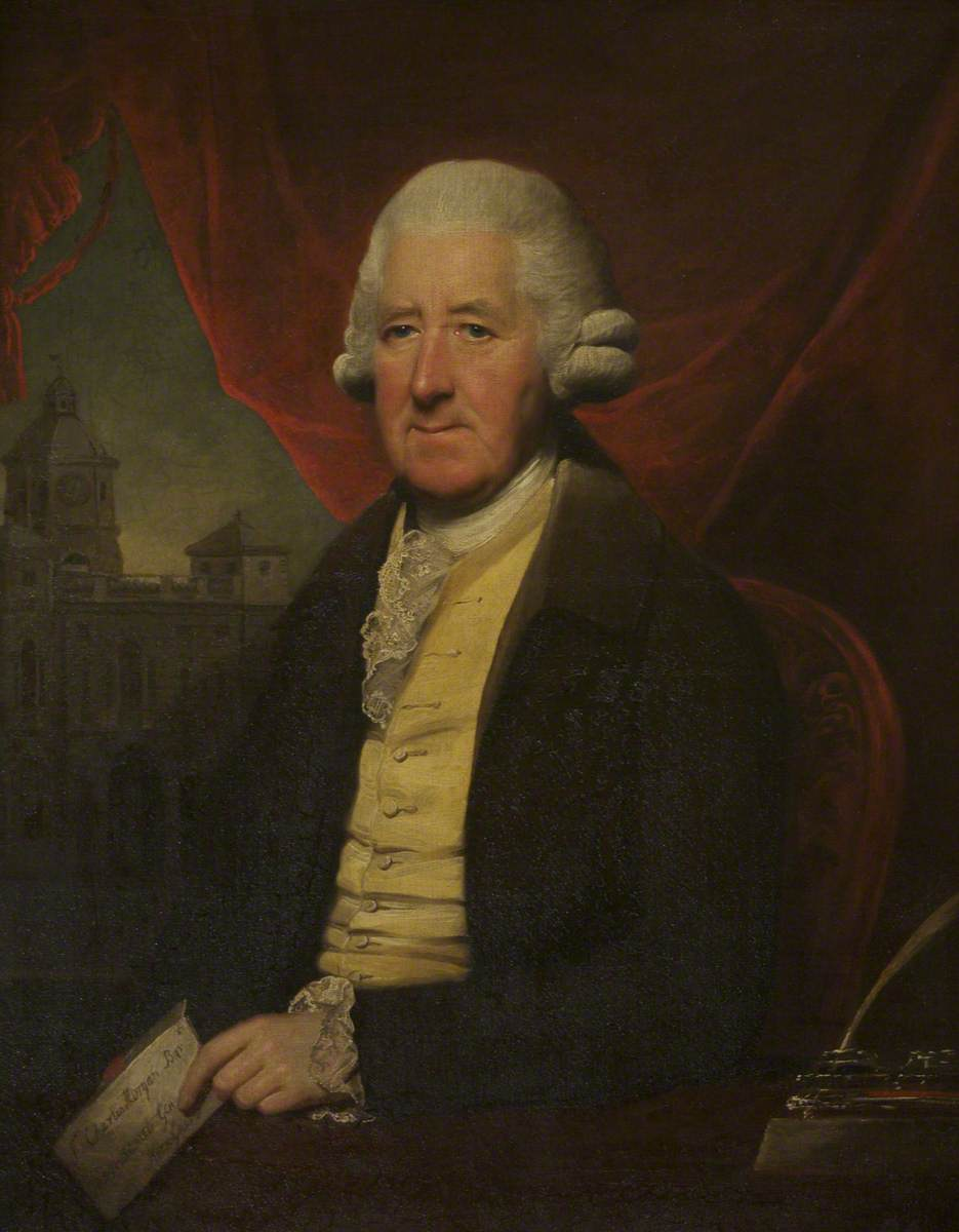 Portrait of Sir Charles Morgan, 1st Baronet (1726–1806), English judge and politician.